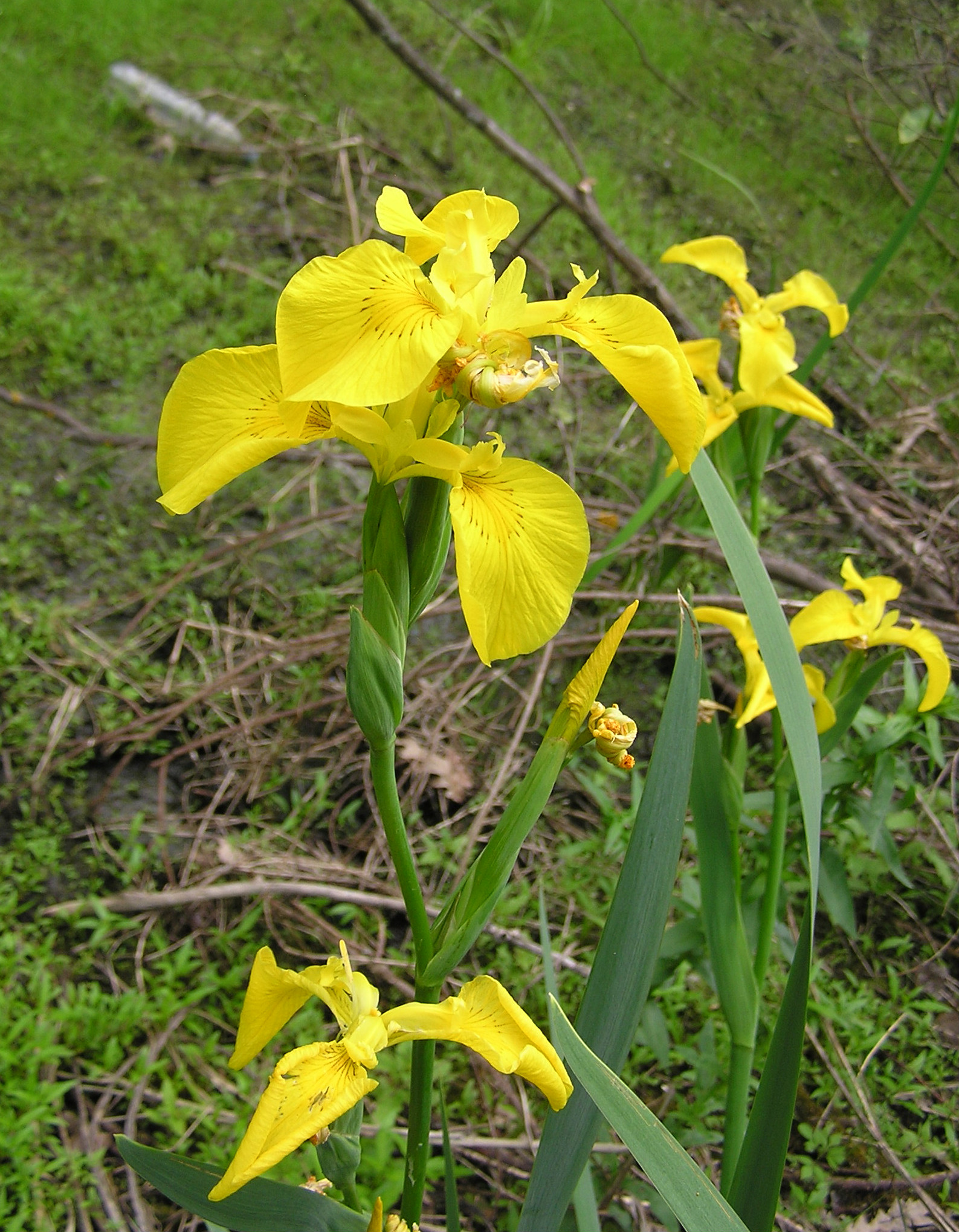 Iris pseudacorus L.) in natural habitat. Near city of Engels, Saratov Oblast, Russia.